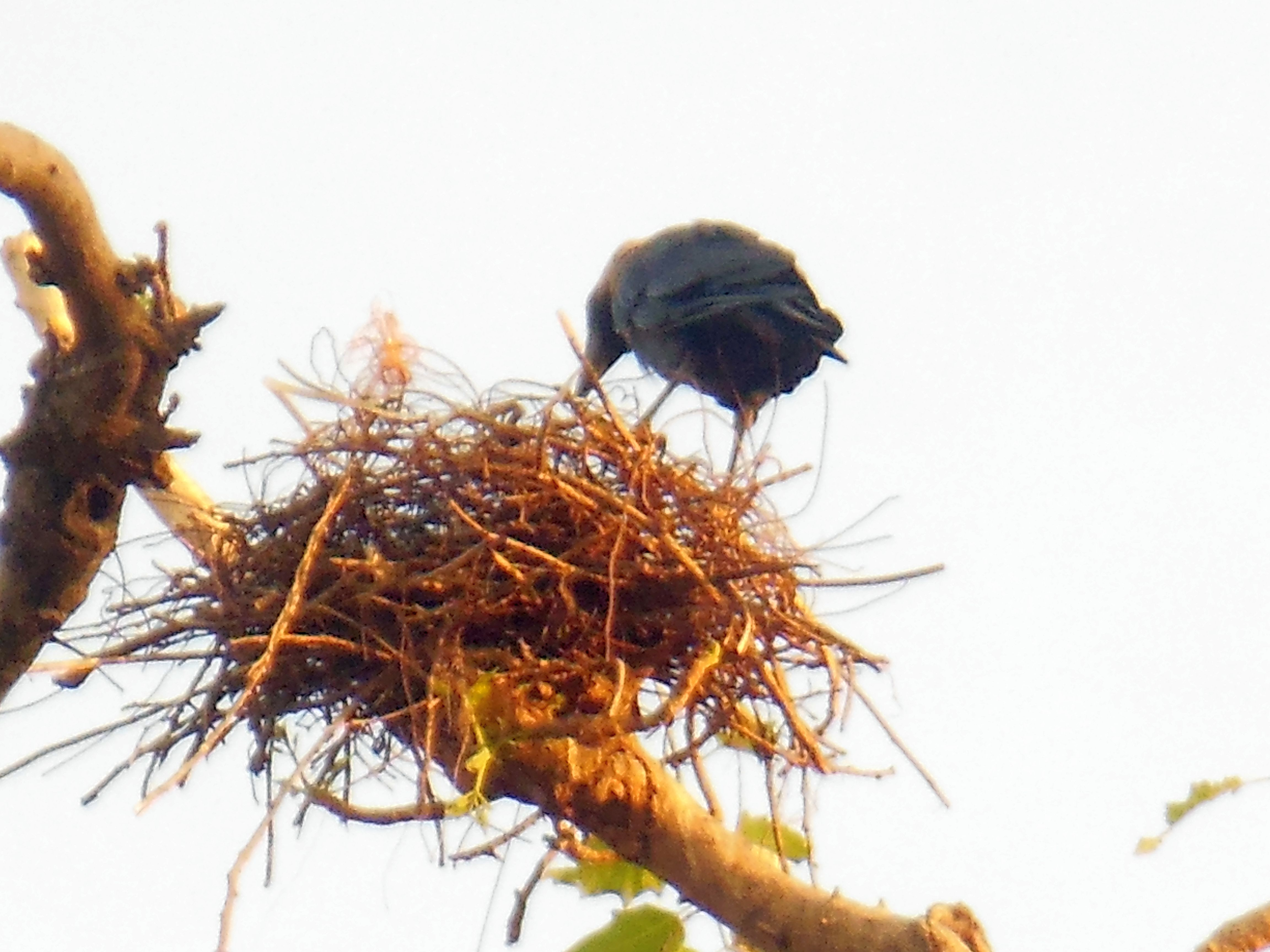 While walking early morning I saw this Nest and captured the image.